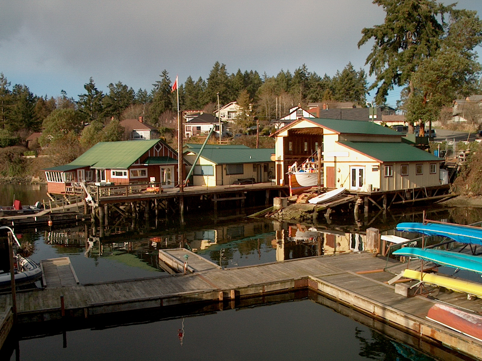 Docks at BC Ferry terminal in Brentwood Bay BC 1 of 3